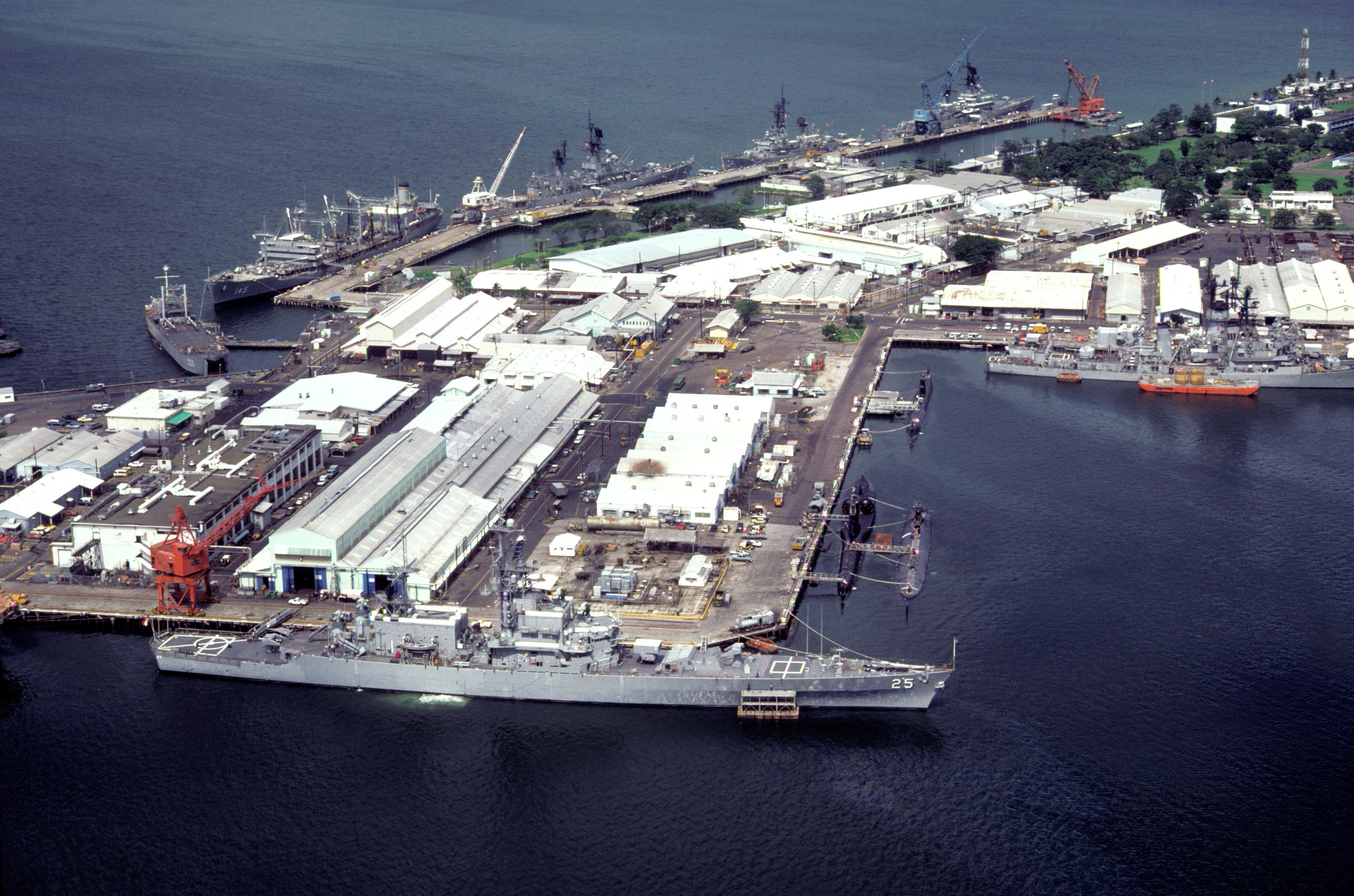 A starboard view of the nuclear-powered guided missile cruiser USS BAINBRIDGE (CGN-25) with other ships. Three submarines, including the nuclear-powered attack submarine USS HADDOCK (SSN-621), are docked off the port bow of the BAINBRIDGE. The four ships on the other side of the pier are, right to left: the guided missile cruiser USS WILLIAM H. STANDLEY (CG-32), the guided missile destroyer USS HENRY B. WILSON (DDG-7), the guided missile cruiser USS STERETT (CG-31) and the oiler USNS HASSAYAMPA (T-AO-145). Location: NAVAL STATION, SUBIC BAY, LUZON PHILIPPINES (PHL)